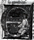 Guillem Magret from troubadour manuscript I, of 13th-century north Italian provenance, now BnF MS 854, folio 139r.